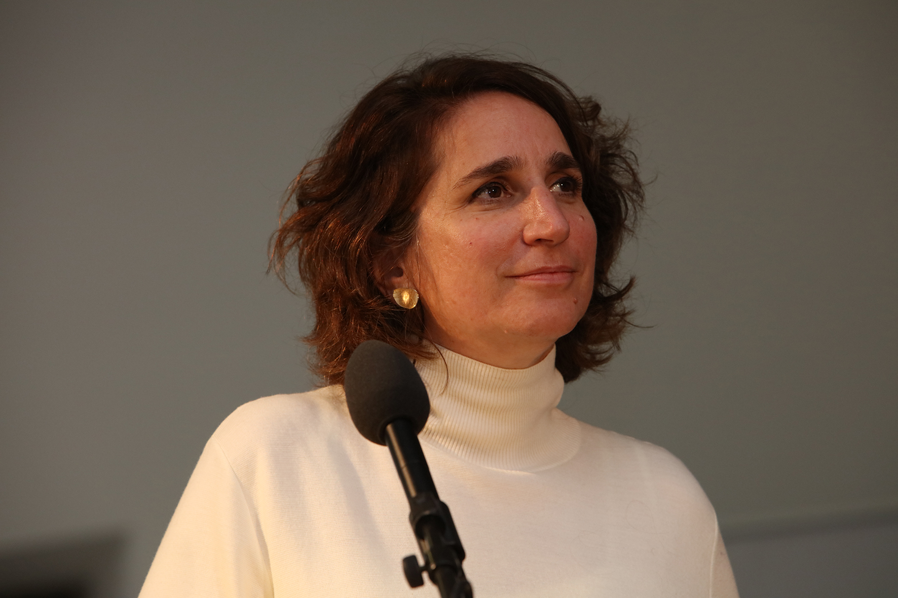 Zugang gestalten 2018